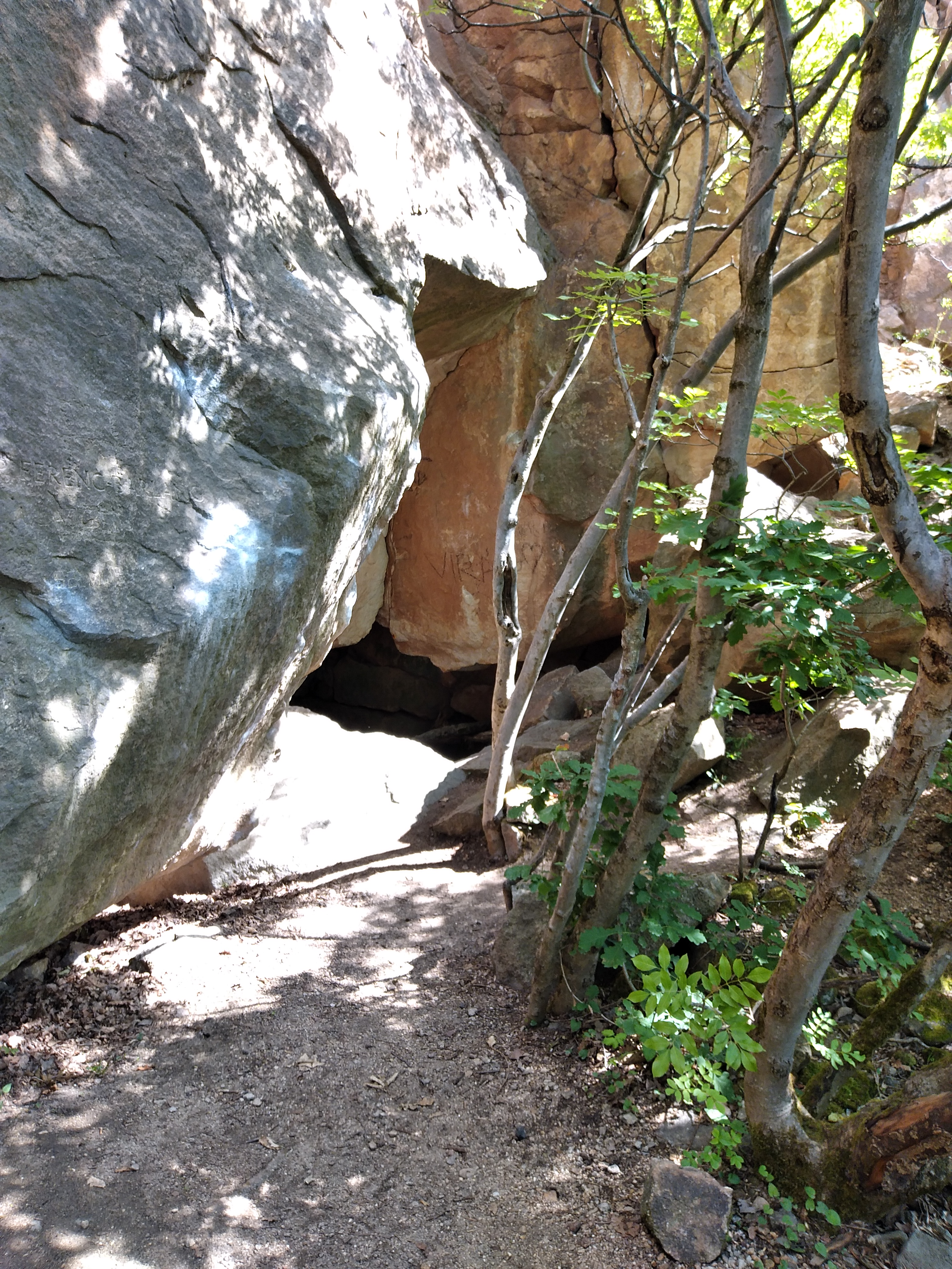 Entrance of the Szophoklész Cave (Hungary, Pilisborosjenő)